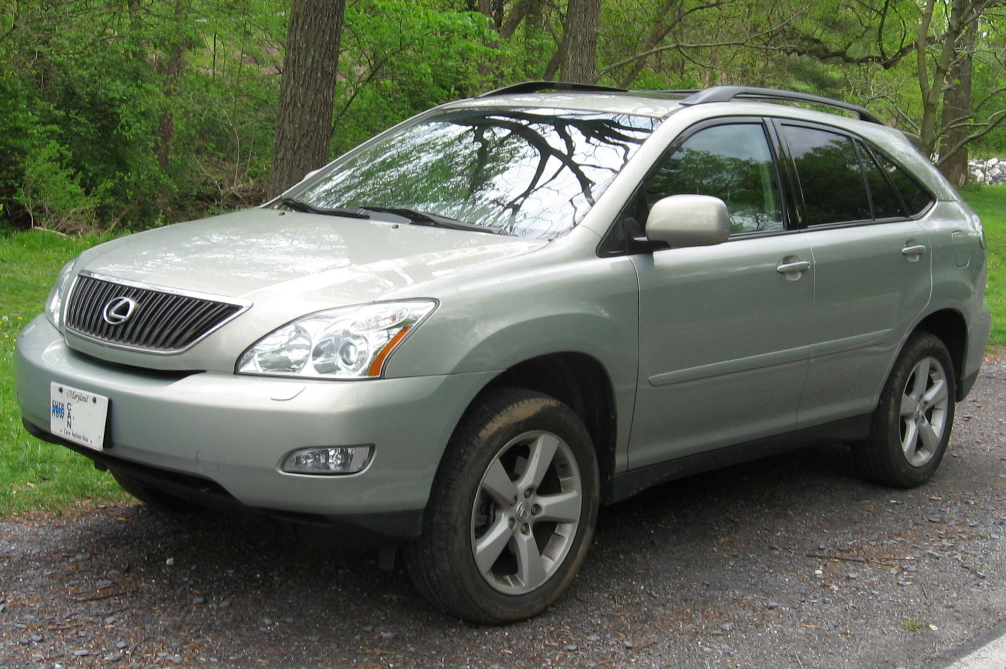 2003-2009 Lexus RX photographed in USA.